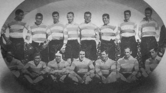 The 1927 Argentine national rugby union team (named "River Plate Rugby Union" that played the third match vs. British Lions when they toured on Argentina.